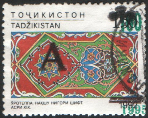 Stamp of Tajikistan - 1997. Author - Post of Tajikistan. Overprint letter "A" somoni on stamp of Tajikistan 1995.